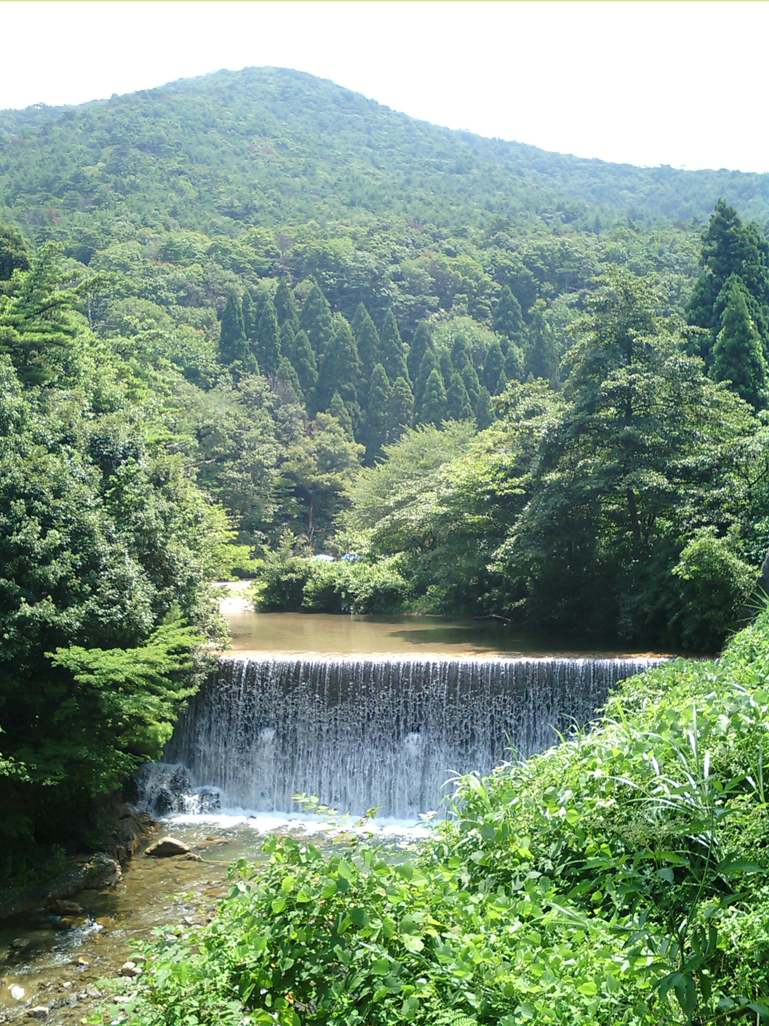 Kuroko valley